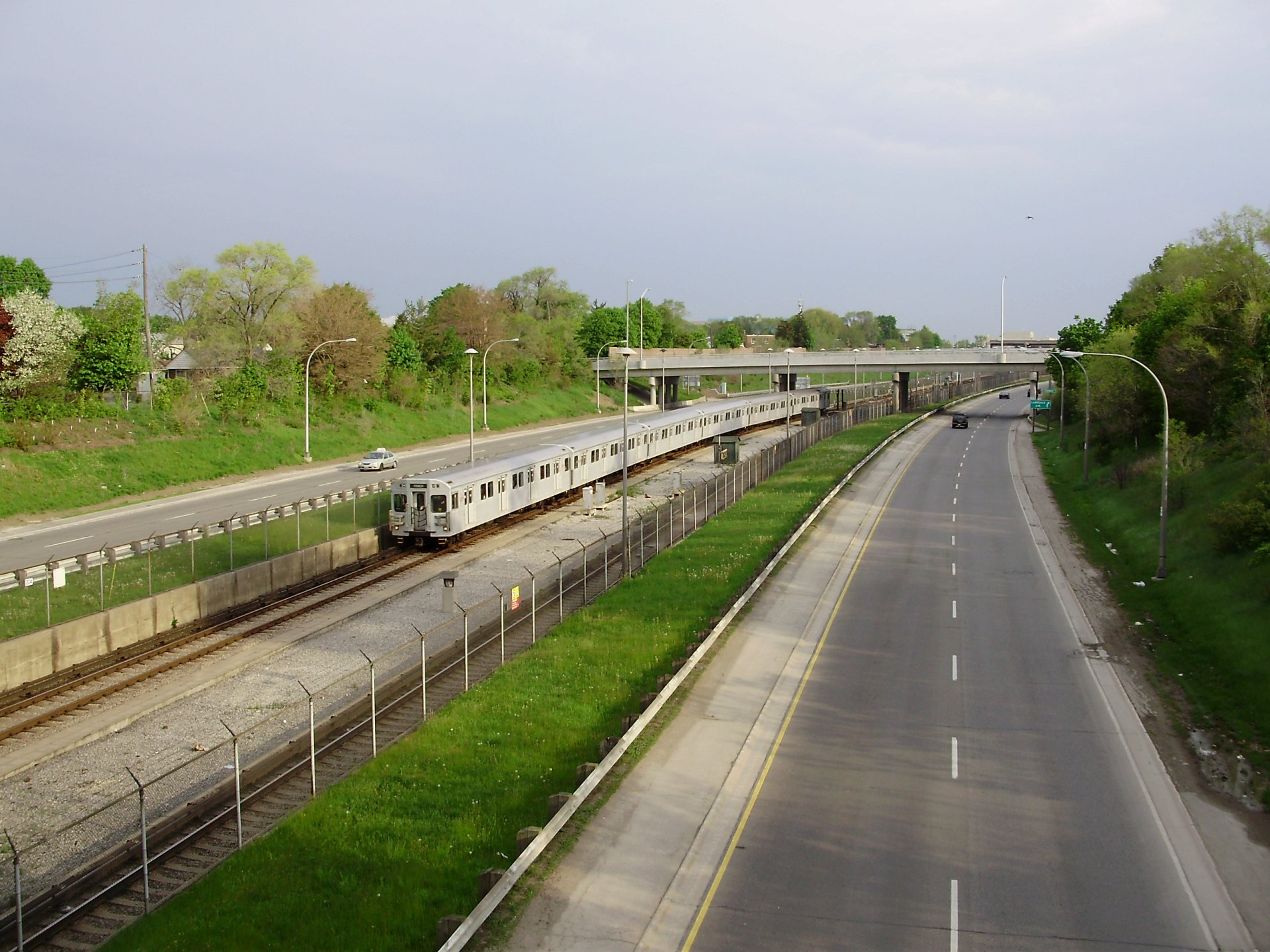 William R. Allen Road in Toronto, Canada, photographed from the north side of Glencairn Avenue. A southbound subway train is visible approaching along the tracks in the road's median.